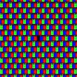 The LCD display of a digital photo camera (Nikon Coolpix 3100) in close-up, showing a dead pixel. Even though this is a dead pixel, it appears as a stuck red pixel to the naked eye. When displayed on a 15" monitor set to its optimum resolution (1024x768 pixels), the final photo has a magnification of about 40x. Photo taken with a Canon Powershot A95 camera and some additional equipment (a Pentax K mount 50 mm f:1.7 lens and a simple convex lens taken off a magnifying glass) to achieve the magnification.